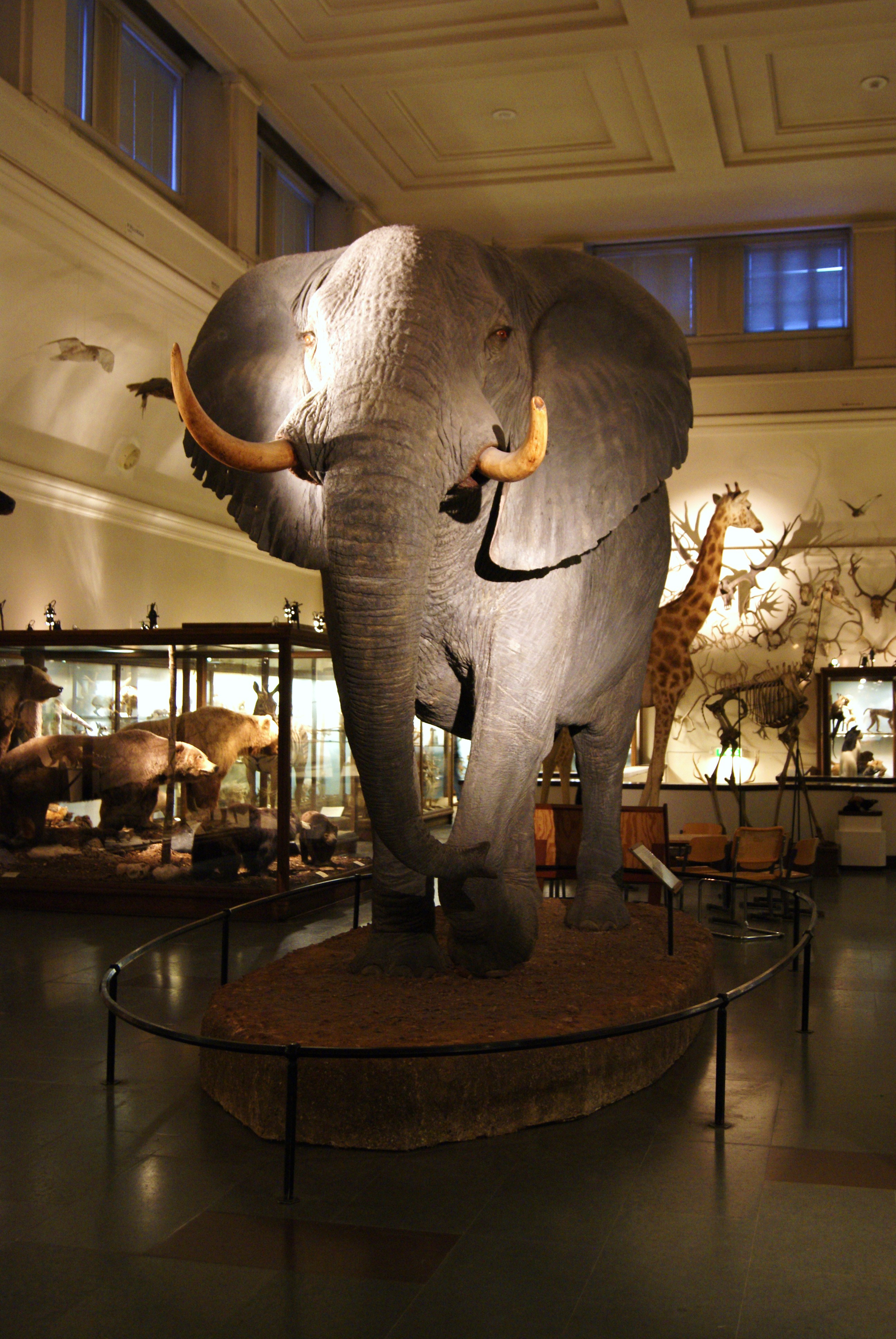 A mounted African elephant on display in Göteborgs Naturhistoriska museum (Gothenburg Museum of Natural History). The elephant was killed in 1948 and was at the time around 45 years old with a weight of 6 ton.